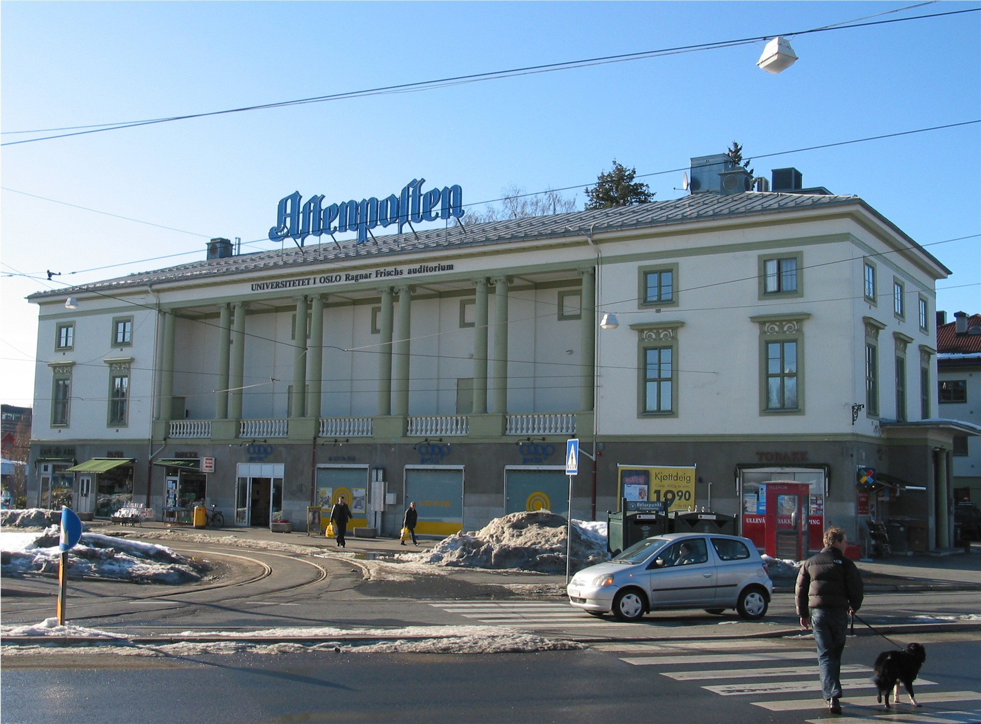 The former Ullevål Cinema at John Colletts plass, Oslo, Norway. Various shops and cafes are housed on the ground floor, whereas the building brandishes a huge ad for the newspaper Aftenposten on the roof. The balloon loop of the Ullevål Hageby tramway line is also seen.